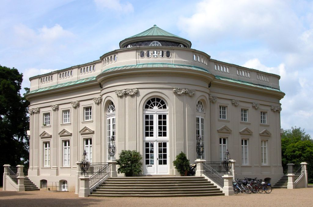 Brunswick, Germany: Schloss Richmond. Note: This picture was rated “excellent“ in the German Wikipedia.